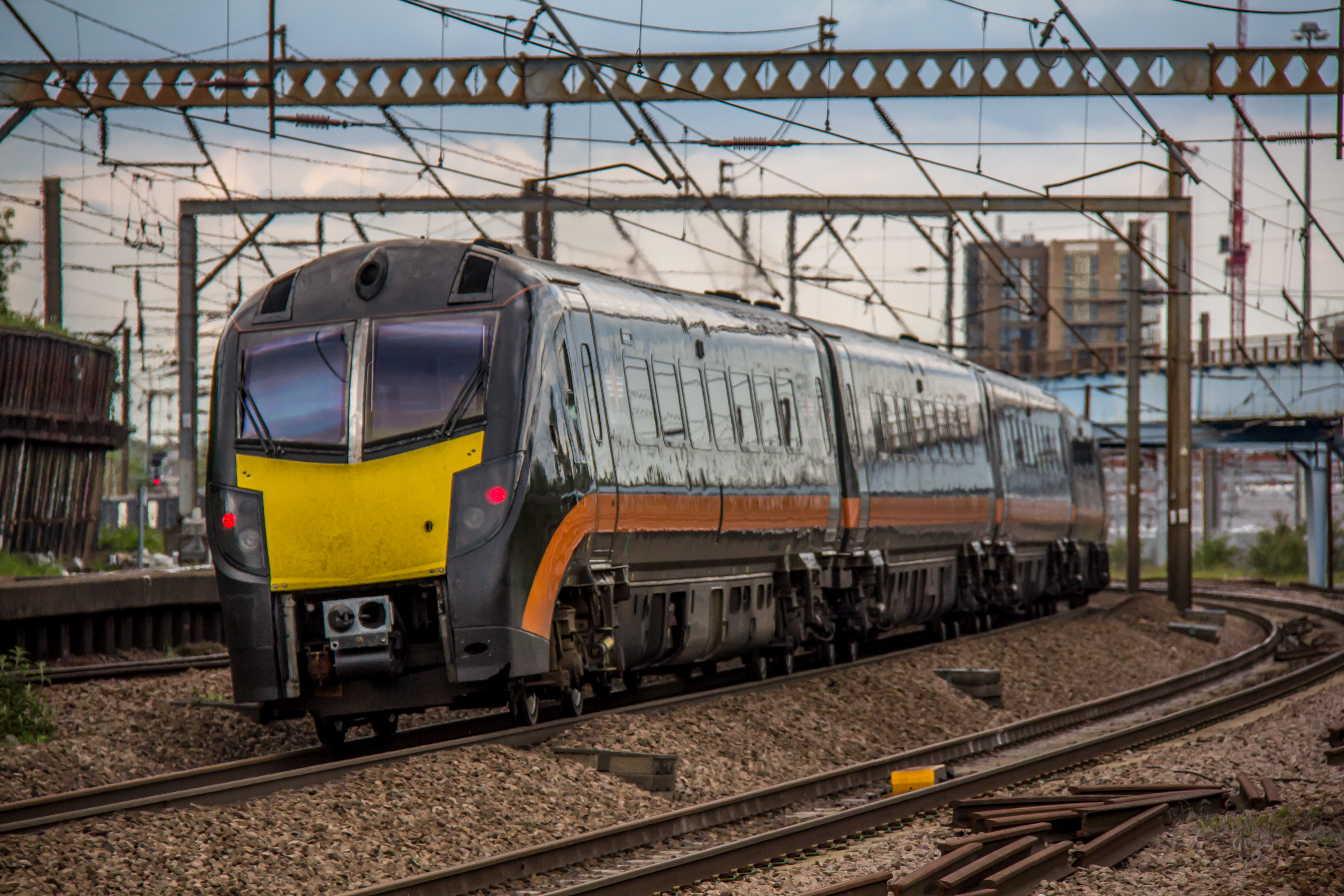 Grand Central Harringay